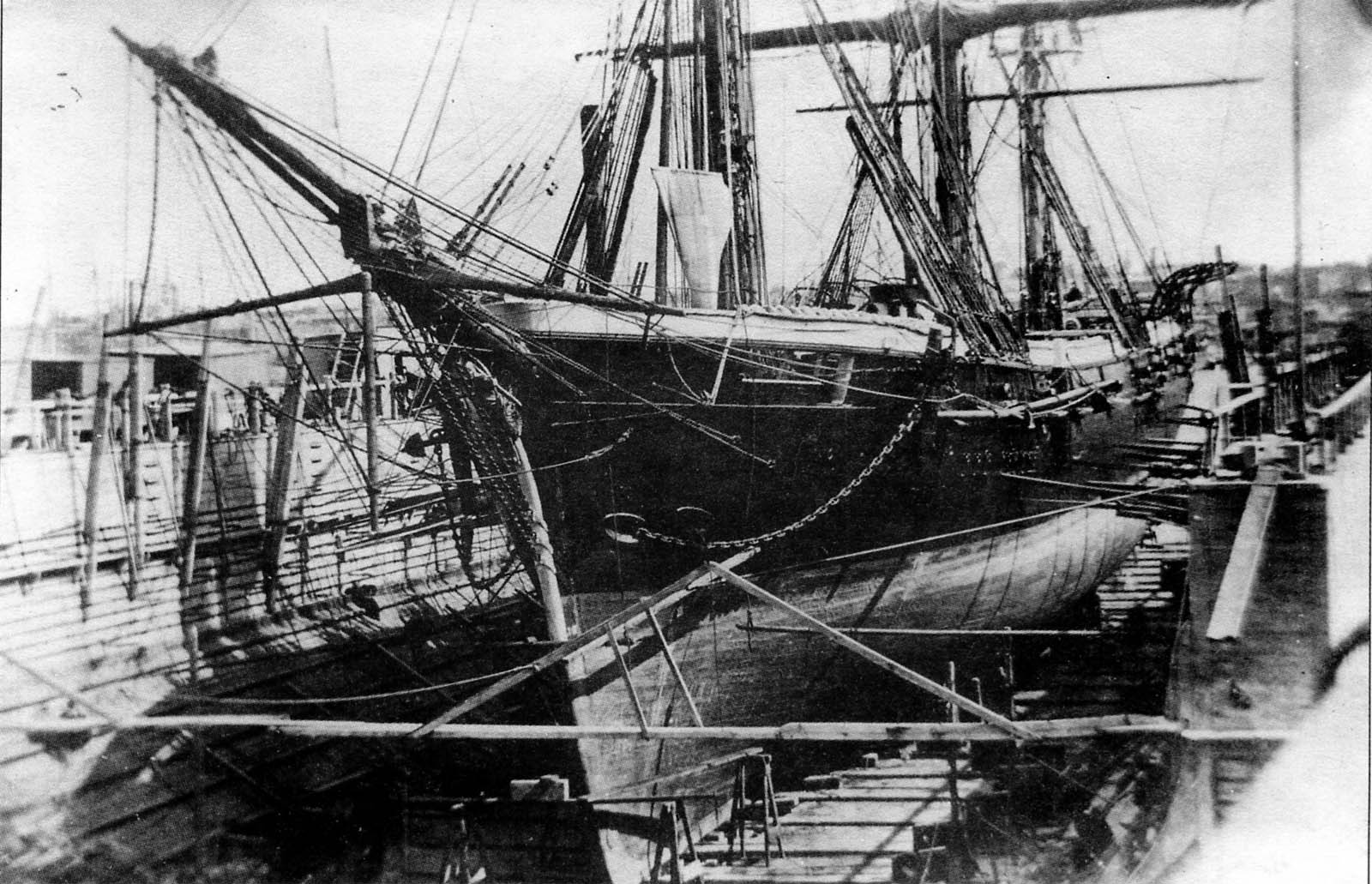 Imperial Russian clipper Strelok.